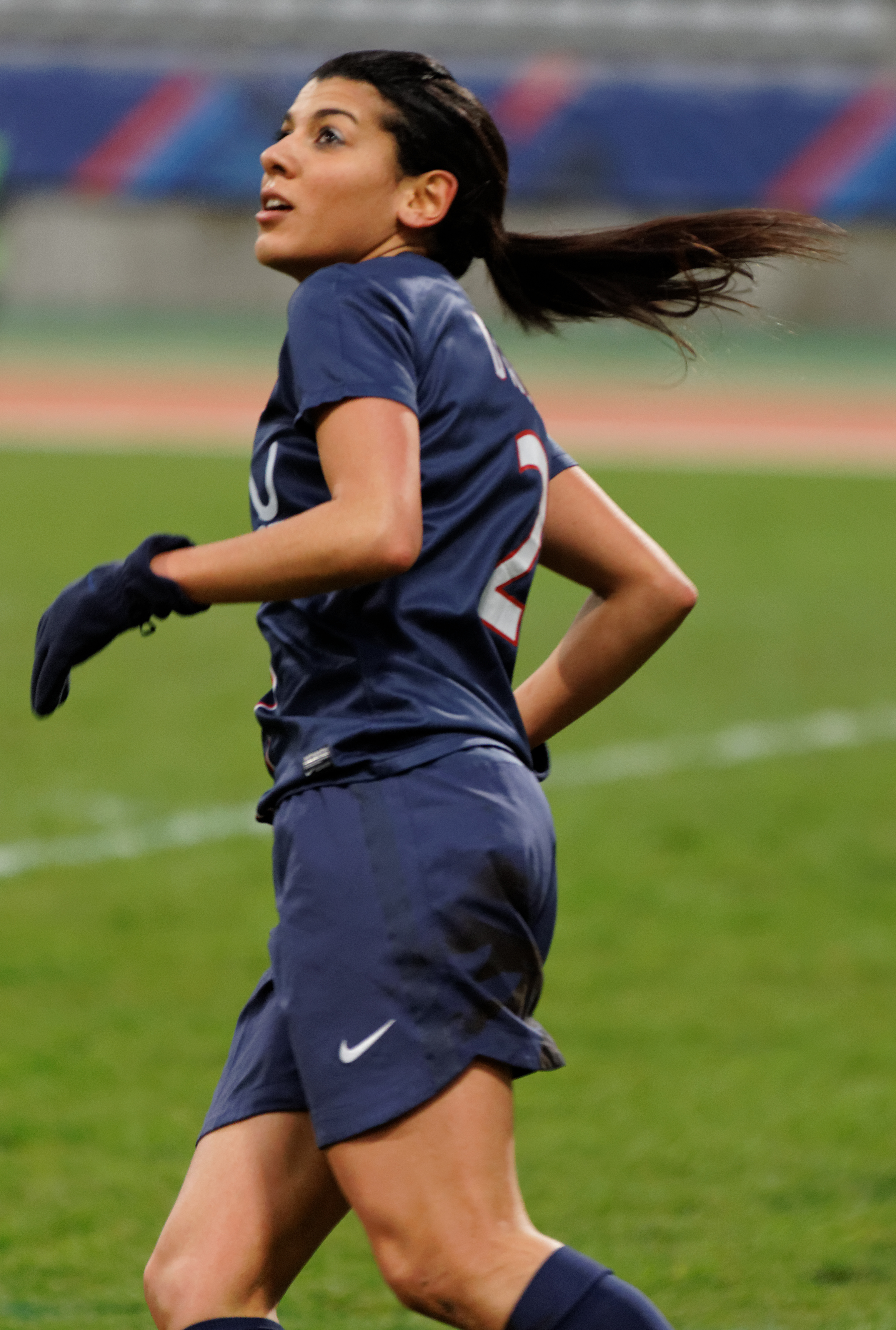 PSG-Montpellier, January 13th, 2013.